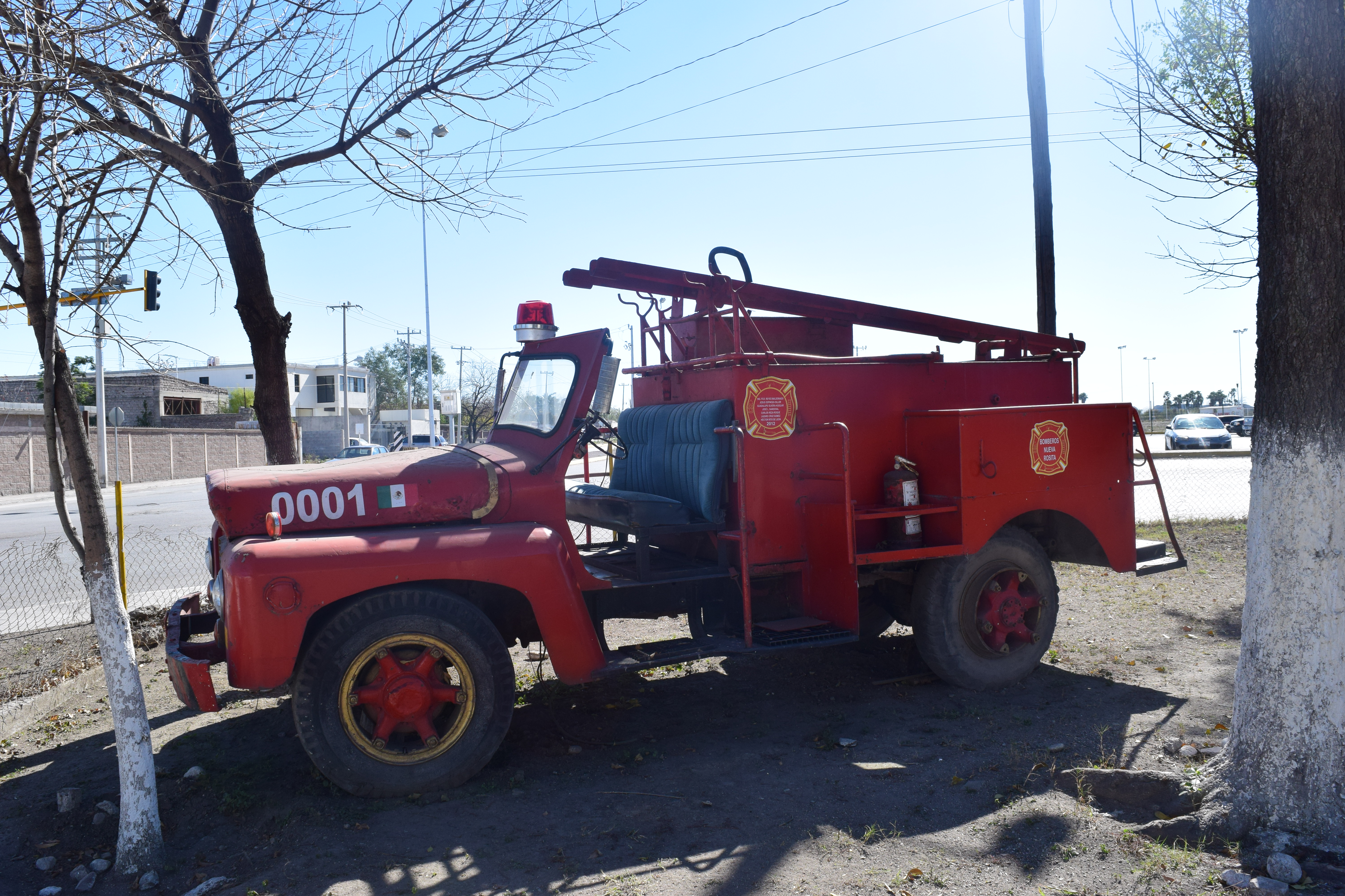 firetruck